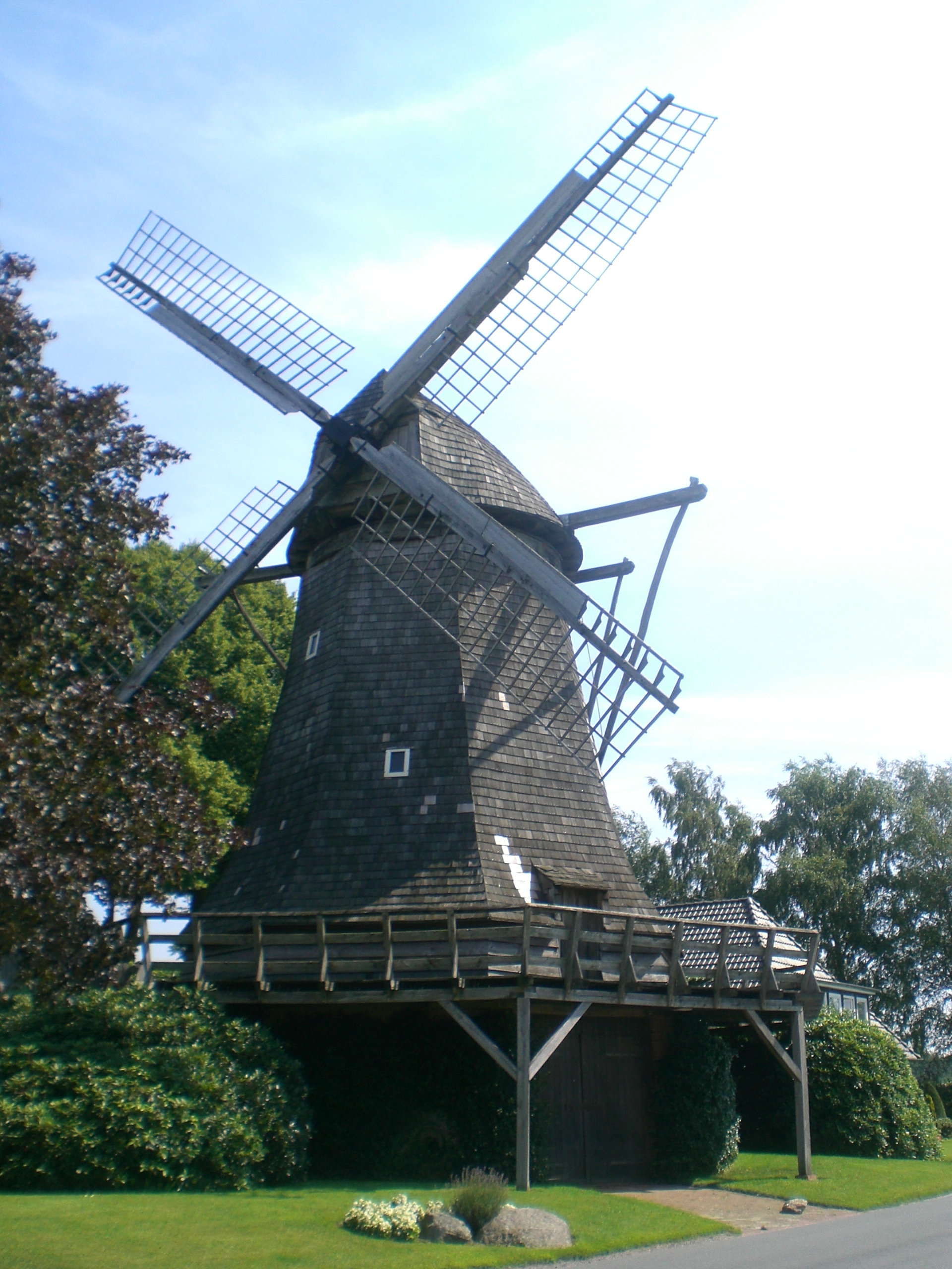 Historical windmill in Essen, Lower Saxony, Germany